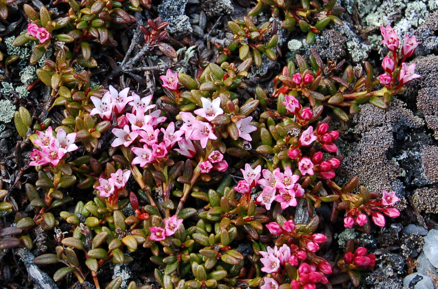 Trailing azalea - Loiseleuria procumbens - Blefjell, Norway